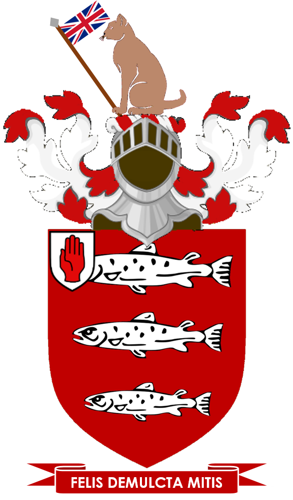 The armorial achievement of the Keane baronets of Belmont